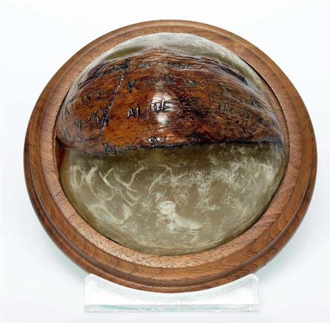 Coconut Shell Paperweight - Original coconut on which the rescue message was inscribed by Kennedy to rescue the crew of the PT-109 and delivered by natives, Biuku Gasa and Eroni Kumana, of the Solomon Islands. From the source: While Kennedy was serving in WWII as commander of the PT109, his boat was hit by a Japanese destroyer and his crew was stranded in the Solomon Islands. Lieutenant John F. Kennedy carved this Coconut shell with a message and gave it to two natives to deliver to the PT base at Rendova so he and his crew would be rescued. He later had the coconut shell encased in wood and plastic and used it as a paperweight on his desk in the Oval Office. Message carved on coconut shell reads "NAURO ISL…COMMANDER…NATIVE KNOWS POS'IT…HE CAN PILOT…11 ALIVE…NEED SMALL BOAT…KENNEDY".